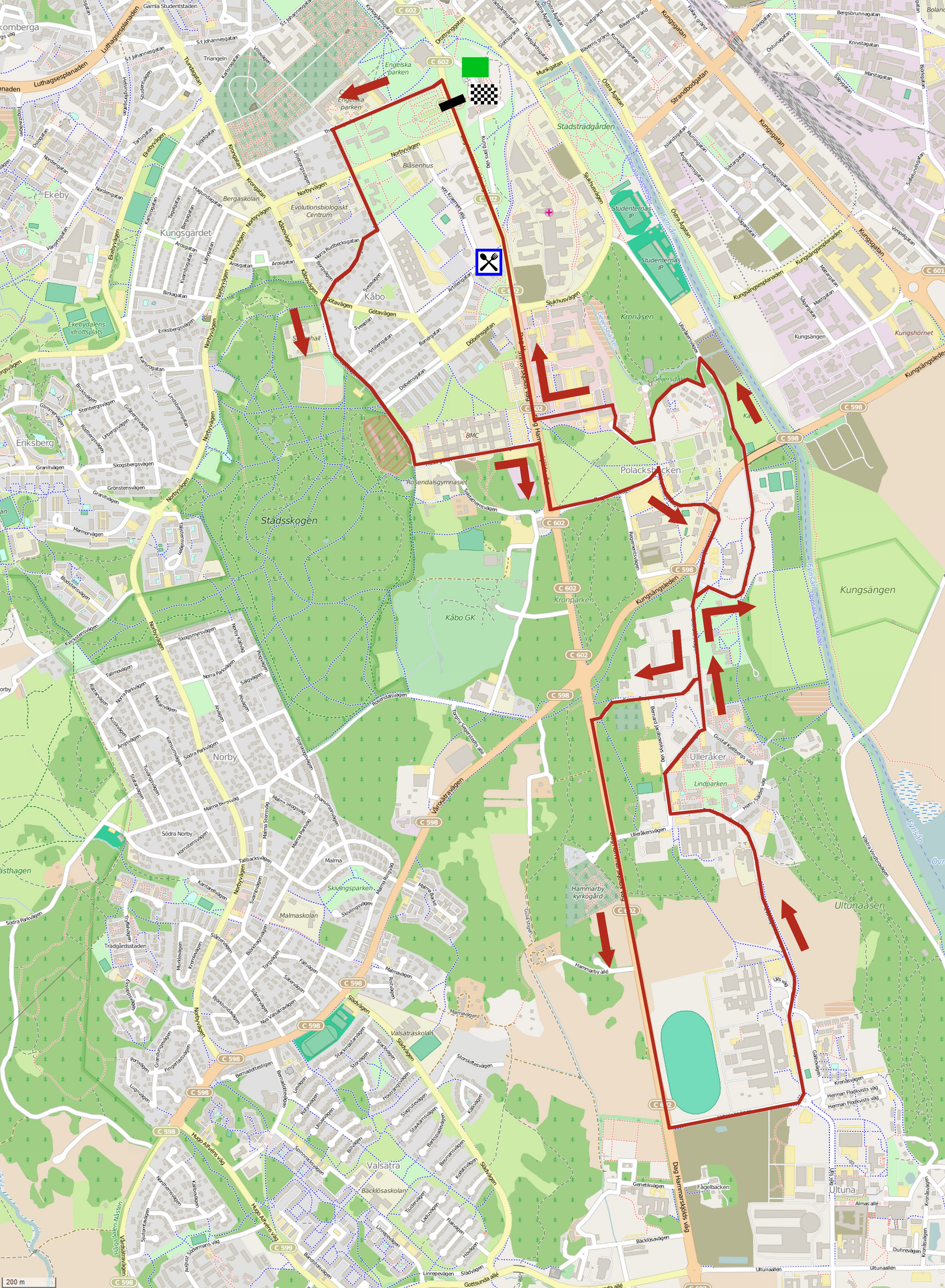 Parcours de la Scandinavian Race Uppsala 2014. This map may be incomplete, and may contain errors. Don't rely solely on it for navigation.